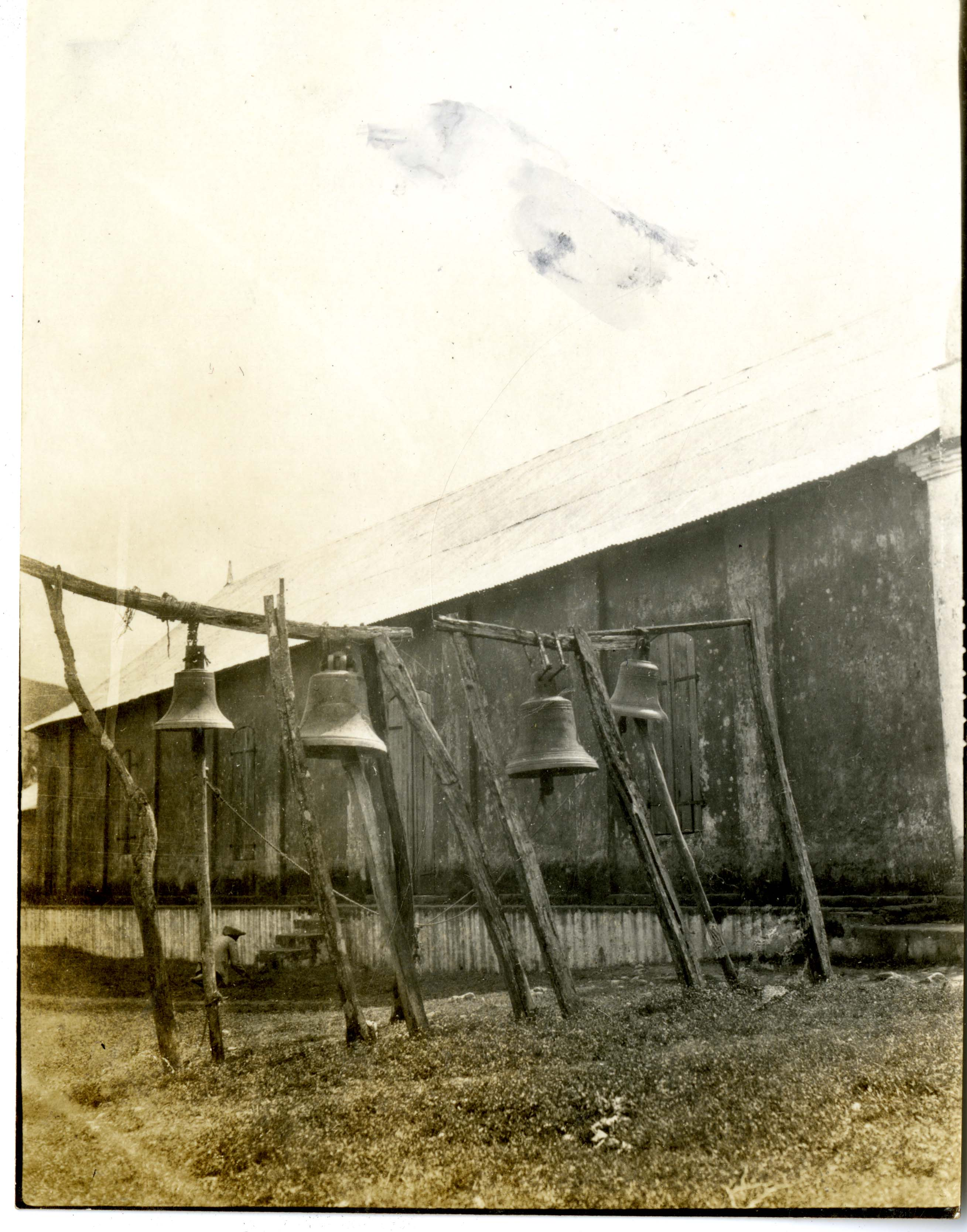 Creator: Watson Perrygo Local number: SIA2008-2549 Summary: The photograph documents Watson Perrygo's field work with Arthur J. Poole in Haiti. Dates: 1928-1929 Collection: SIA RU 7306, Watson M. Perrygo Papers, circa 1880s-1979. Box 2, Folder 10. Repository: Smithsonian Institution Archives View more collections from the Smithsonian Institution.